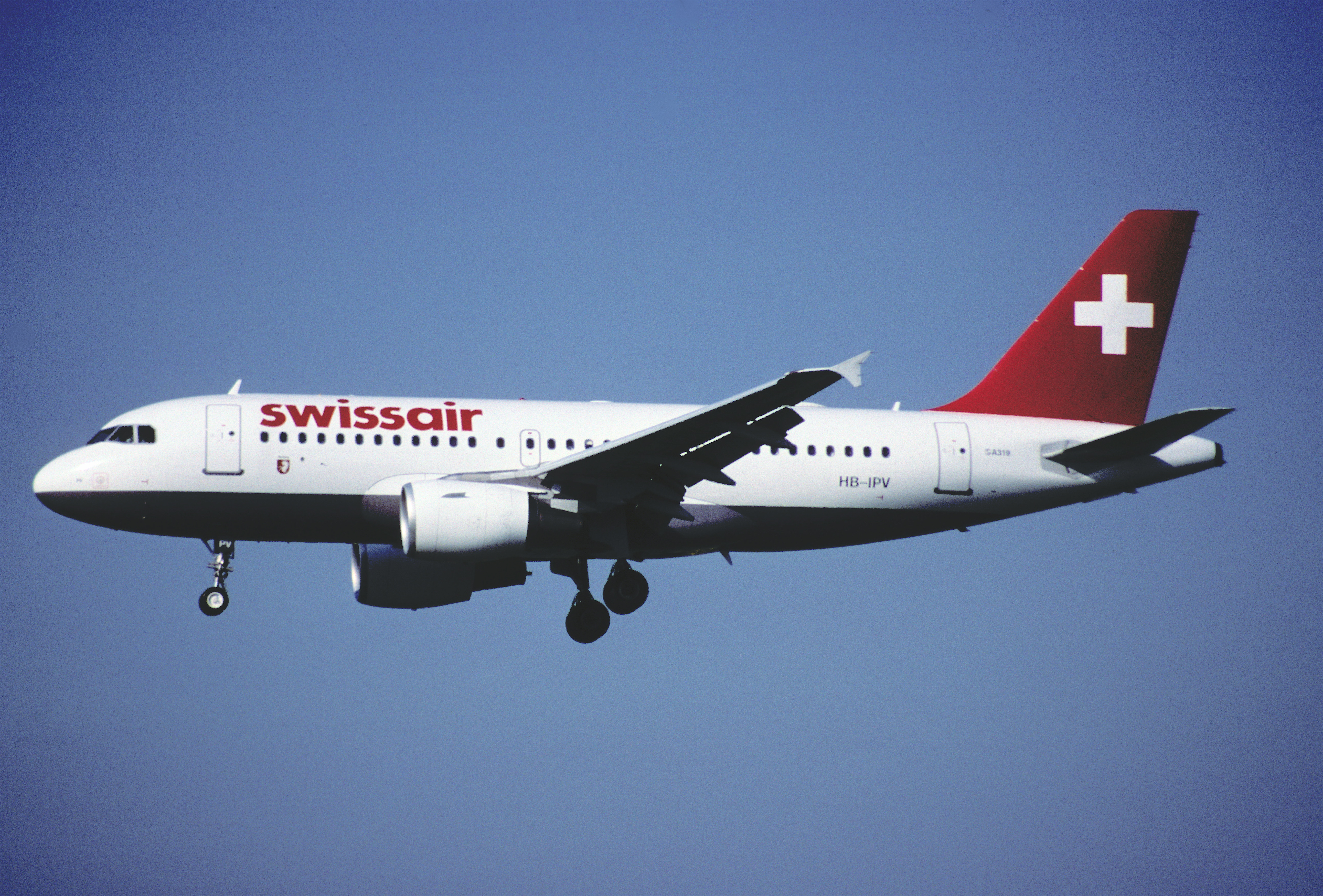 First flight: February 14, 1996...(c/n 578) 14/02/1996 Airbus Industrie F-WWTA 25/04/1996 Swissair HB-IPV 31/03/2002 Swiss International Airlines HB-IPV